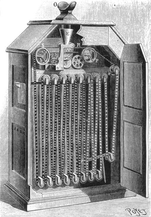 Illustration of the rear interior of a Kinetoscope machine.